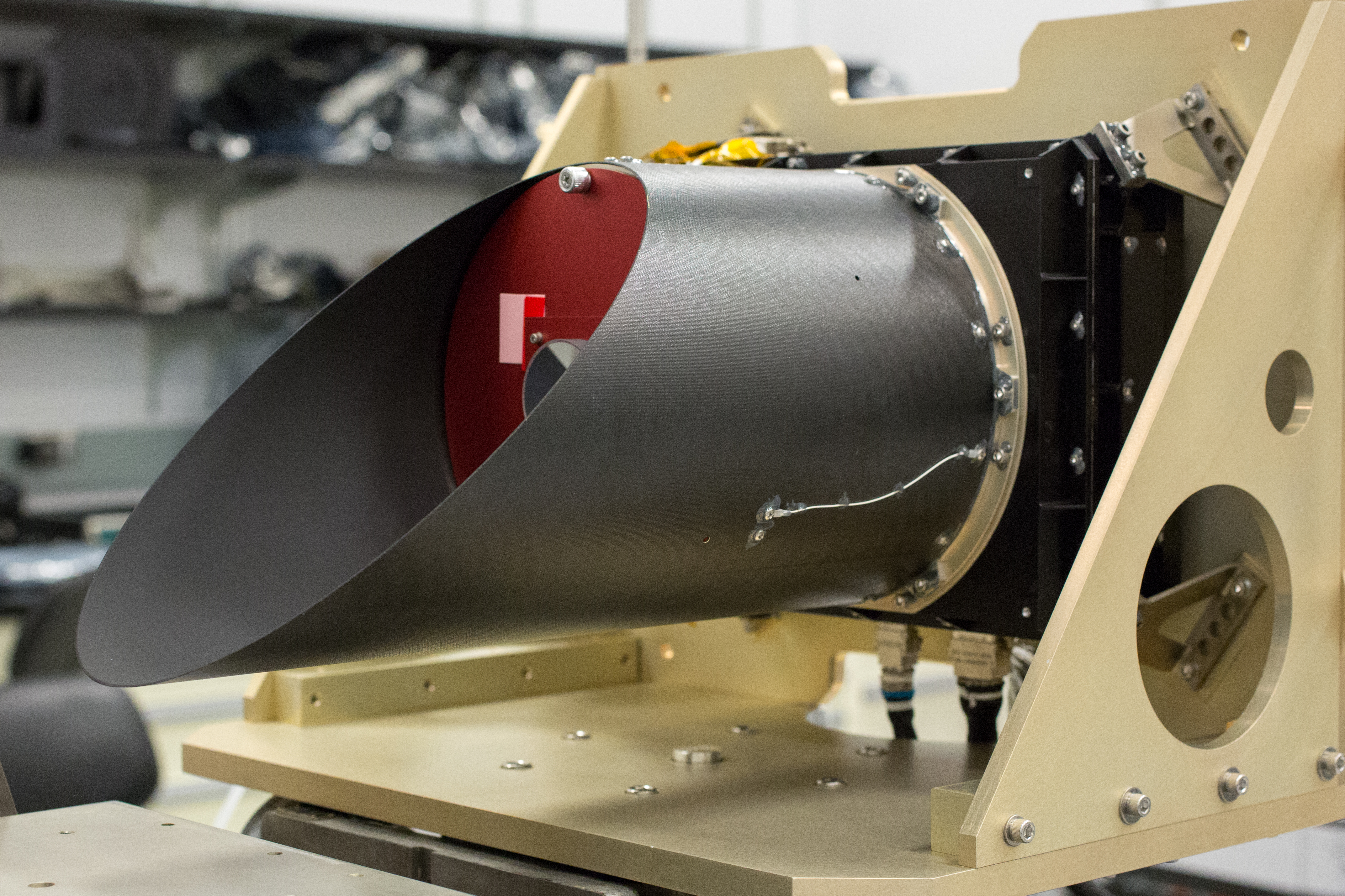 The OSIRIS-REx Thermal Emission Spectrometer (OTES) is the first space instrument built entirely on ASU’s Tempe campus, on Monday, June 22, 2015. It will be shipped to Denver later this week, to be mated to the OSIRIS-REx spacecraft, then it will be used in a September 2016 on a mission to the primitive asteroid Bennu, to map the asteroid's thermal and spectral mineralogy. Photo by Charlie Leight/ASU News